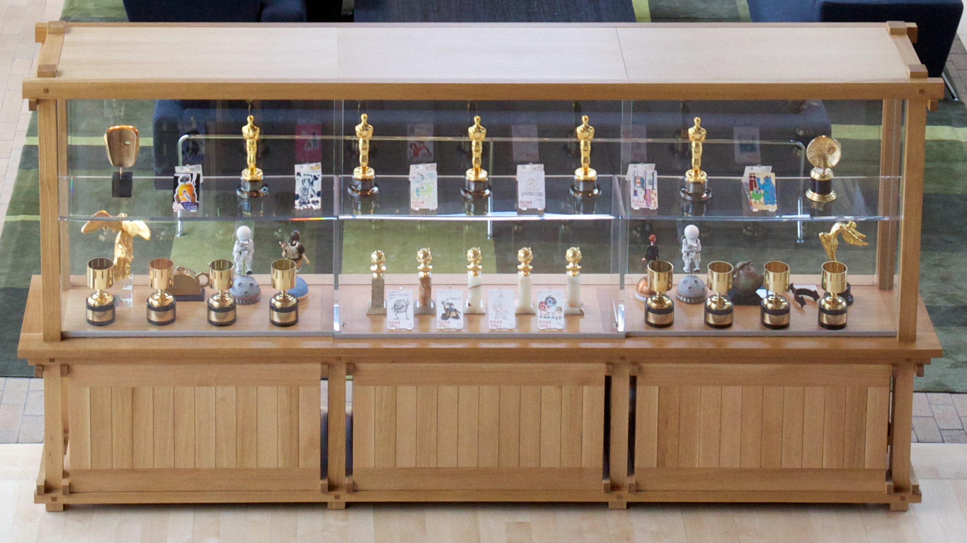 Some of the awards Pixar received for their films, exhibited in the atrium of the Pixar campus in Emeryville, California.